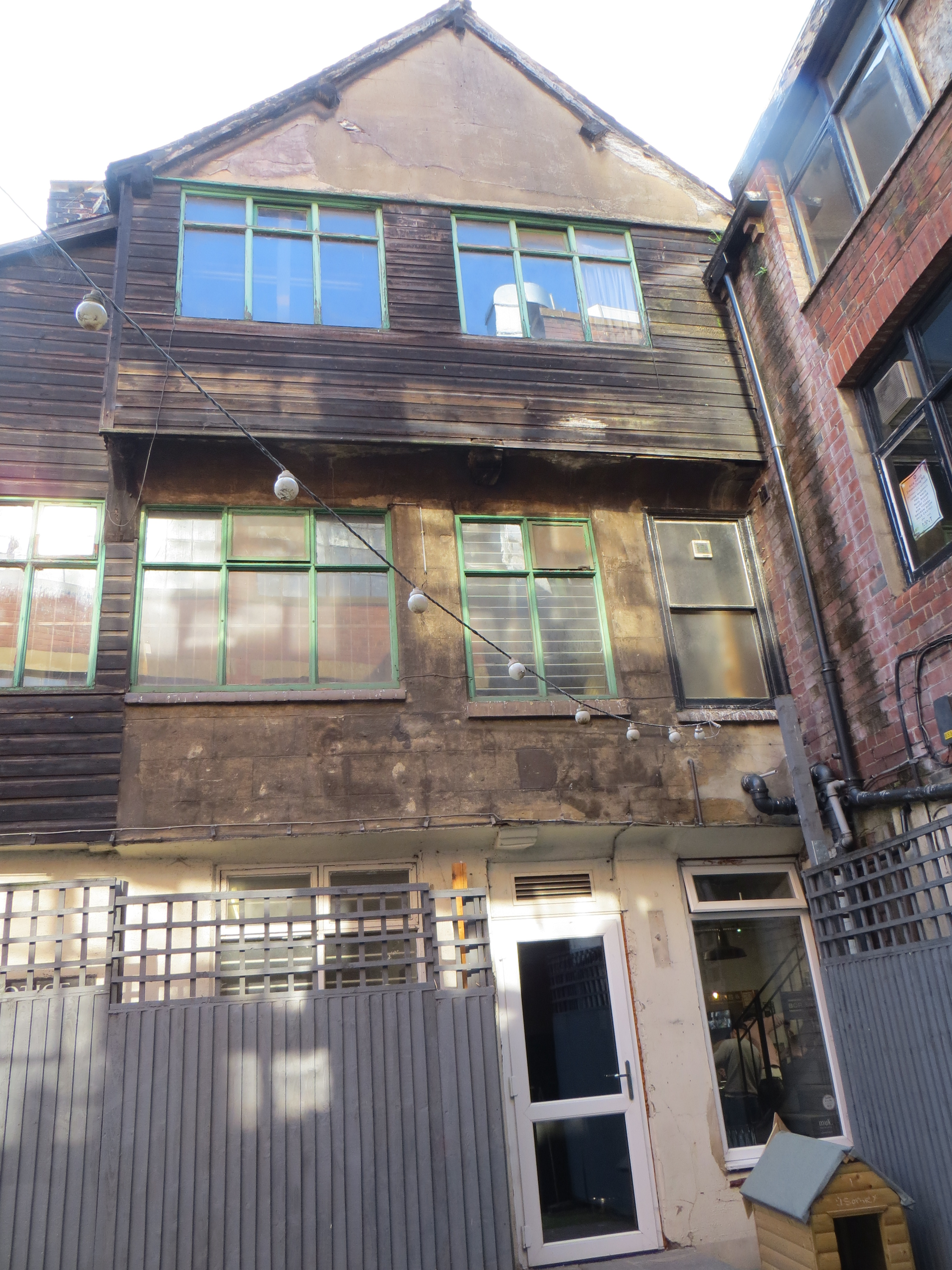 Lambert's Yard. A courtyard off Lower Briggate, Leeds. Visible is part of a timber-faced building, dating from the late 16th century, called Lambert's House, which is Grade II listed.